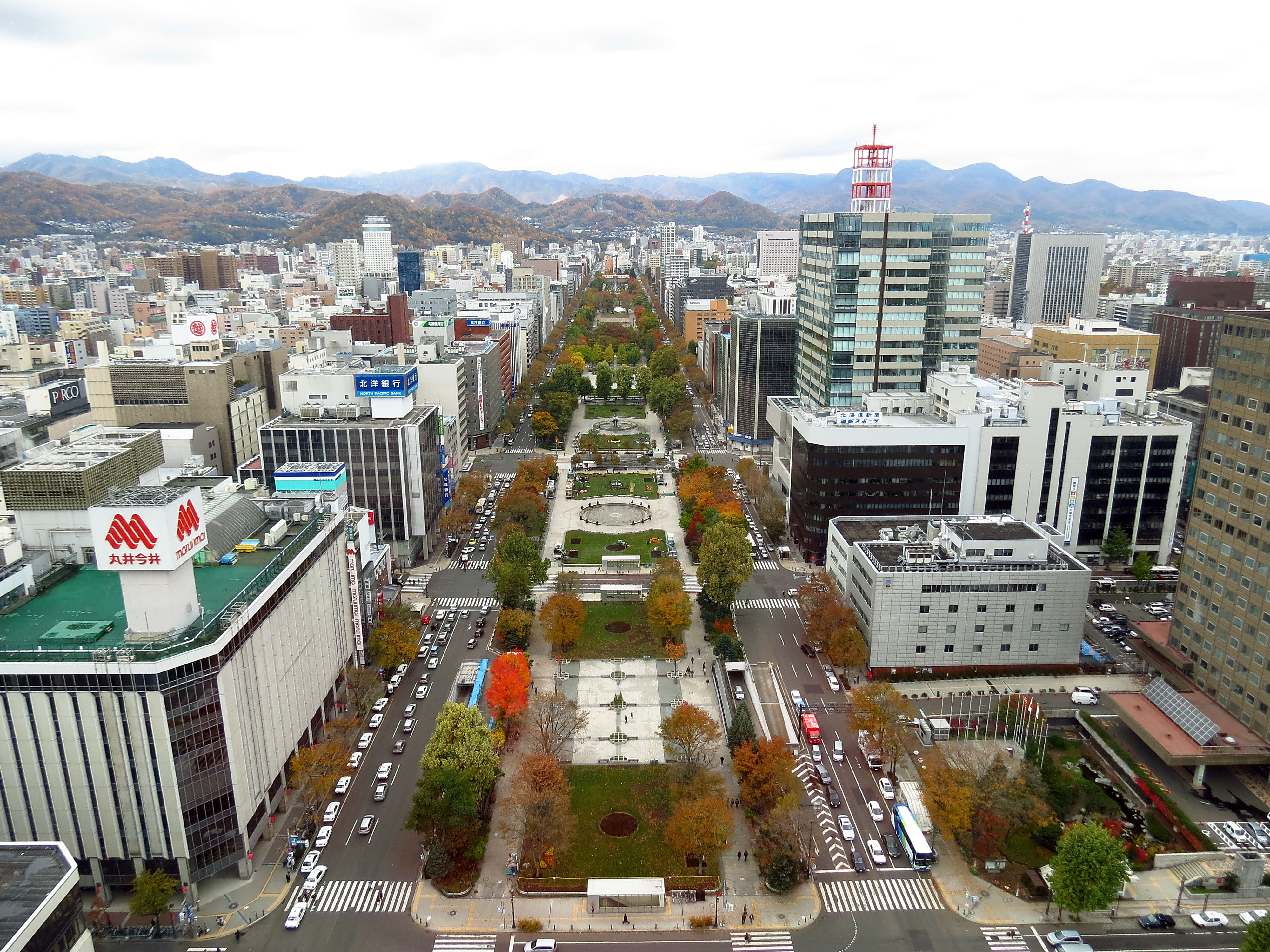 Sapporo, Hokkaido